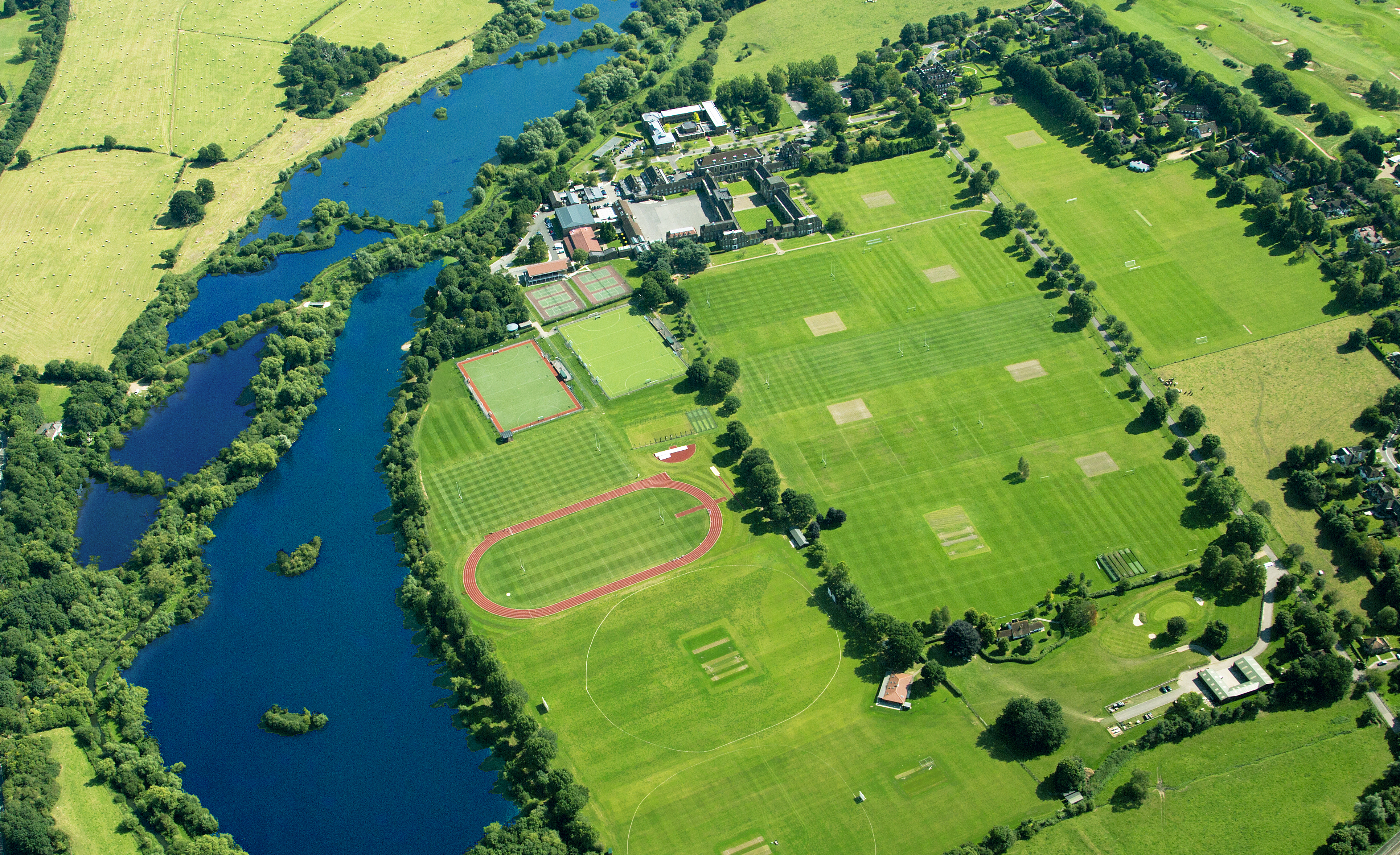 Merchant Taylors' School 2012 Aerial View